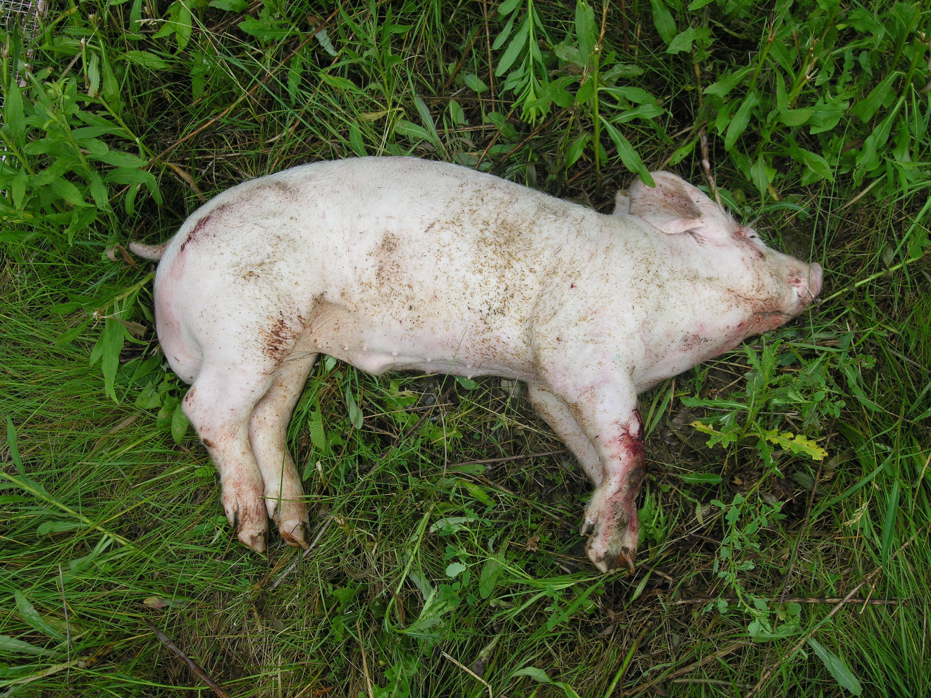 Example of a pig carcass (Sus scrofa) in the fresh stage of decomposition